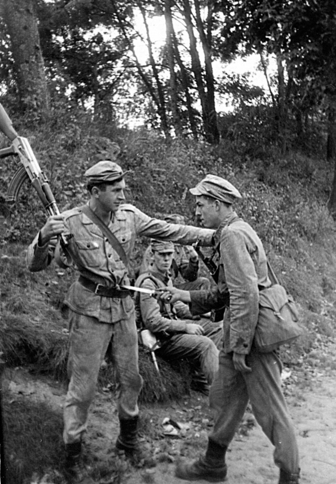 Border Protection Forces in Dźwirzyno